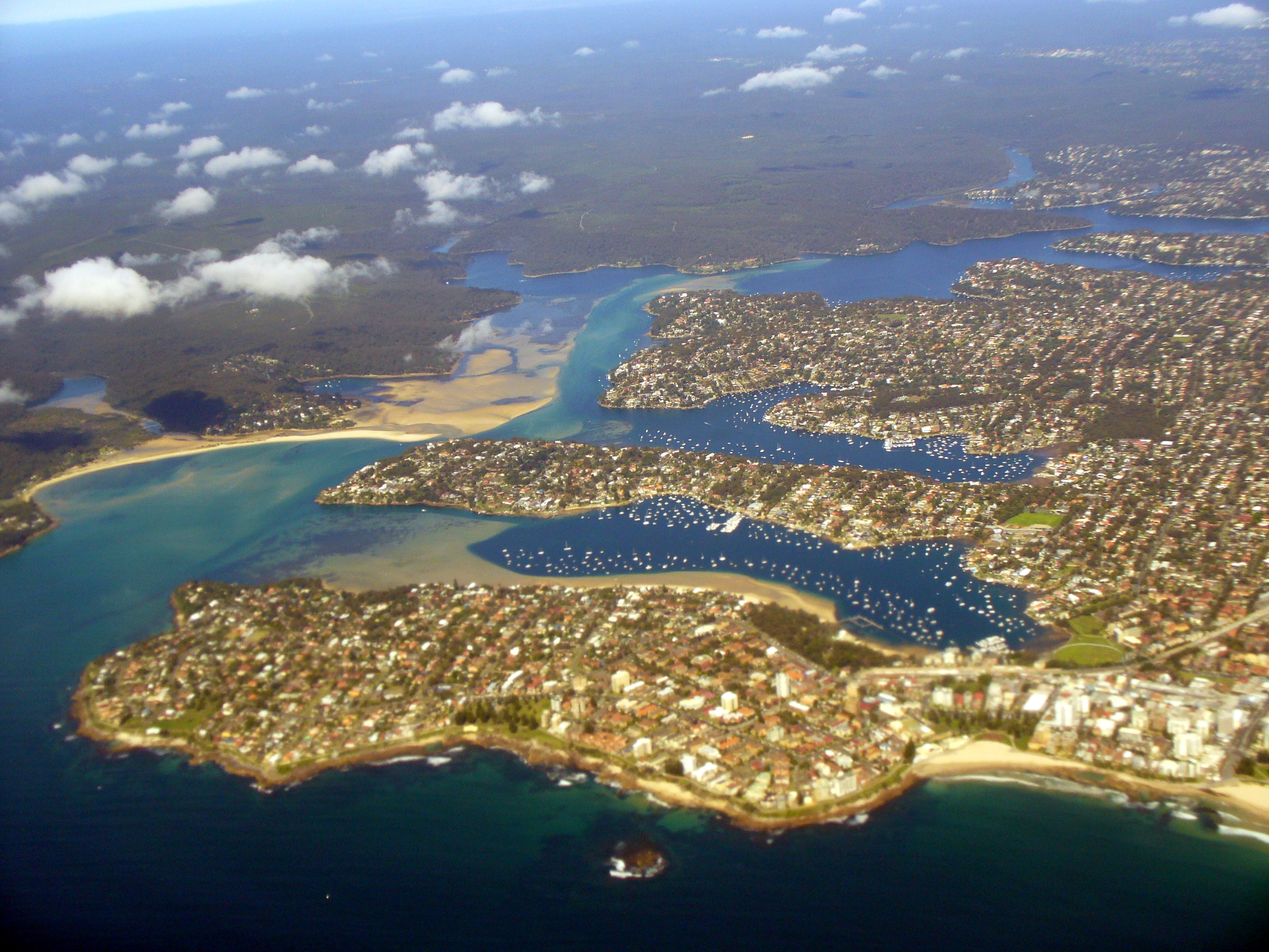 Port Hacking Estuary, near Sydney, New South Wales, as seen from air